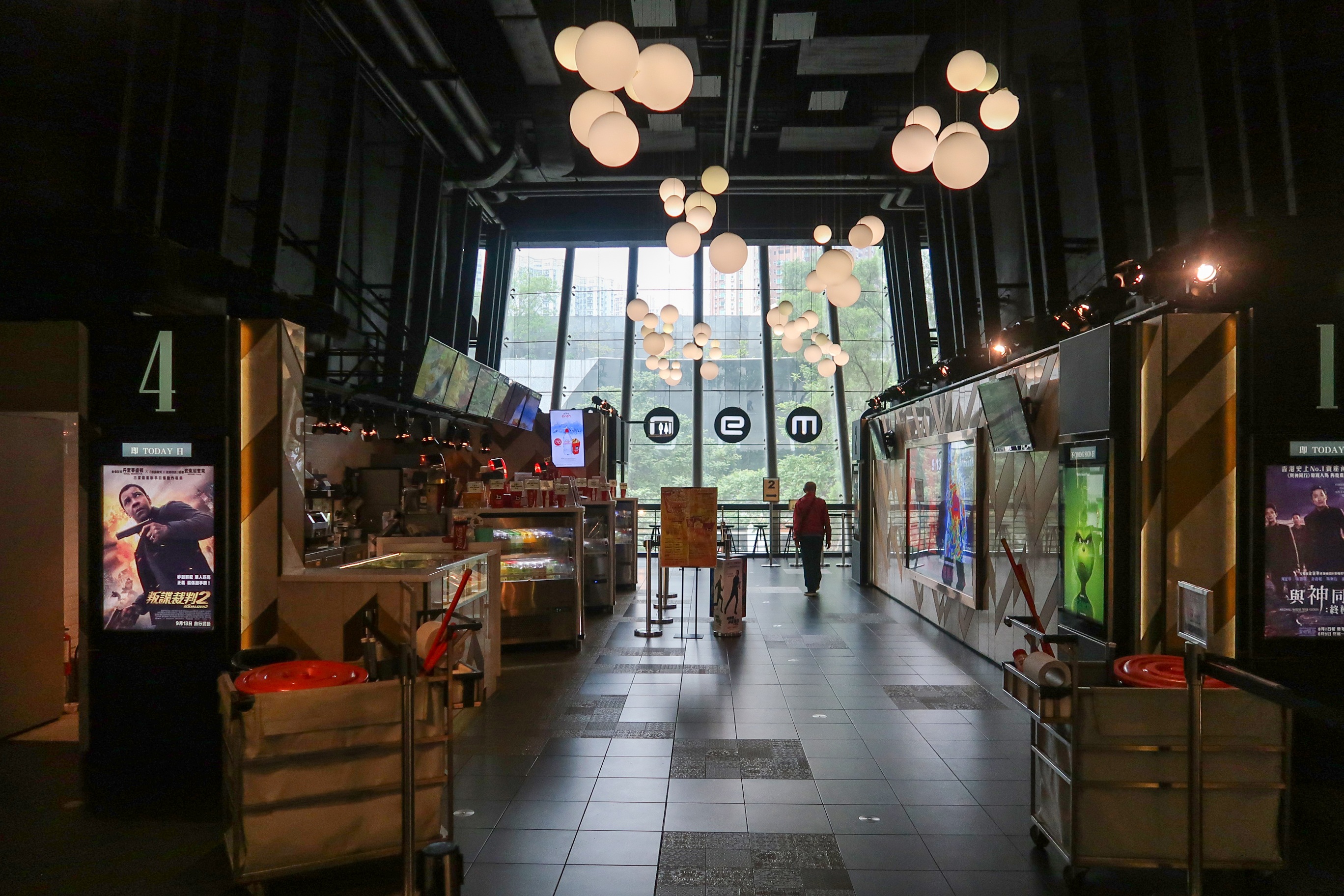 Broadway Cinemas KINGSWOOD GINZA Lobby